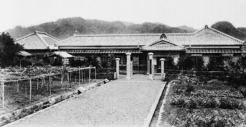 Kamo (Shizuoka) District Office in Taisho era